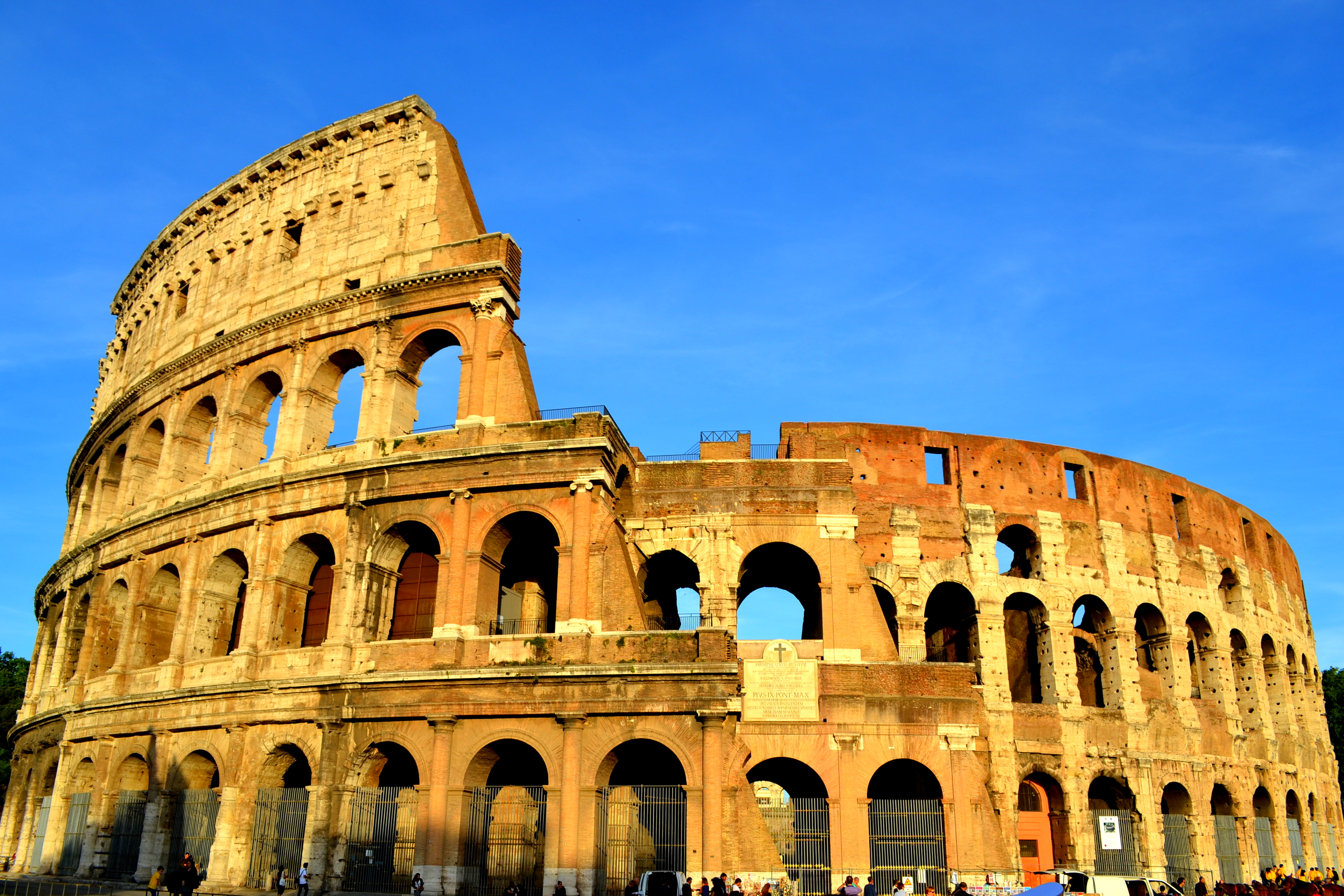 Some click @ Rome